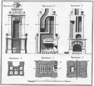 Furnace design by Nikolay Lvov